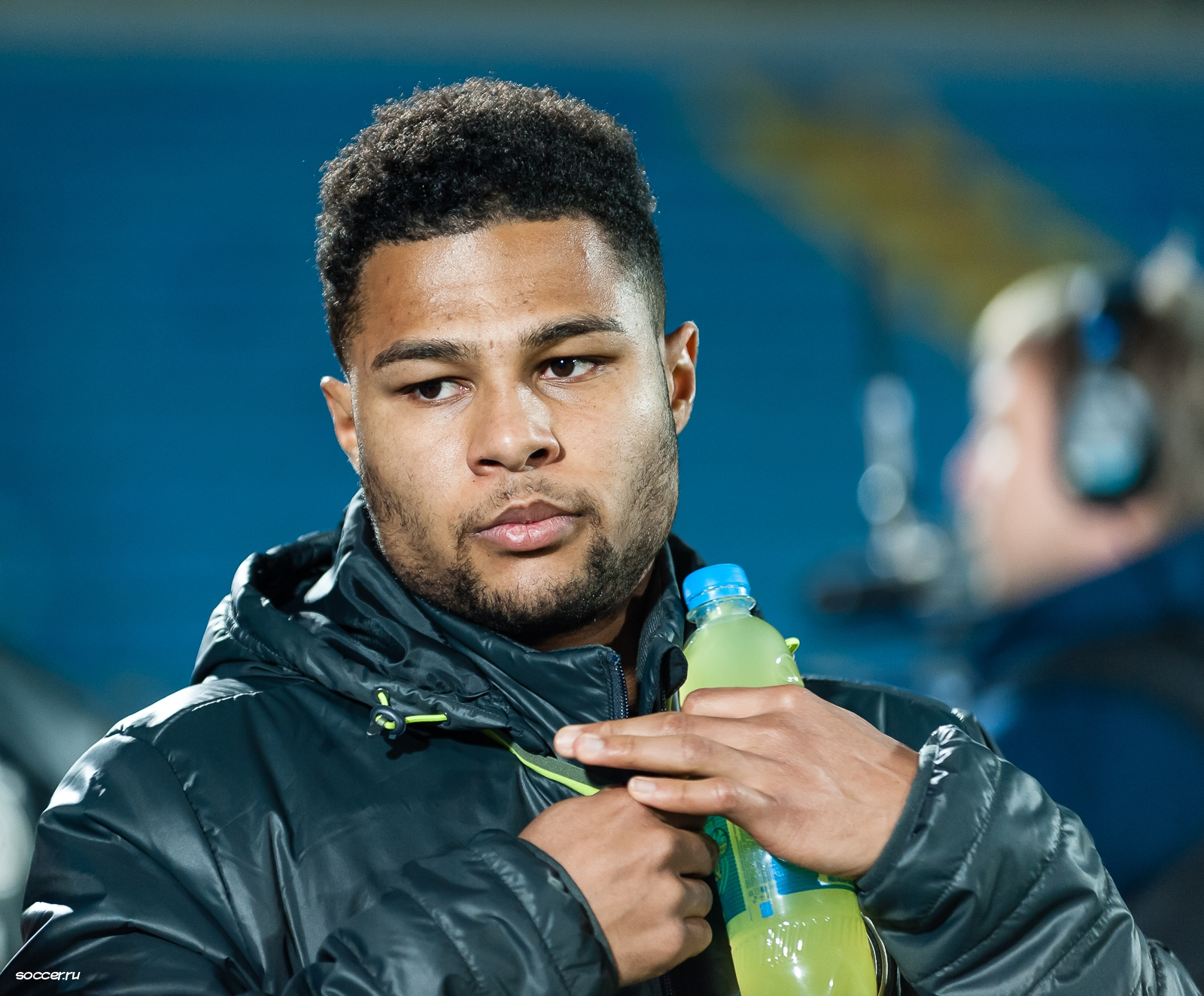 Serge Gnabry